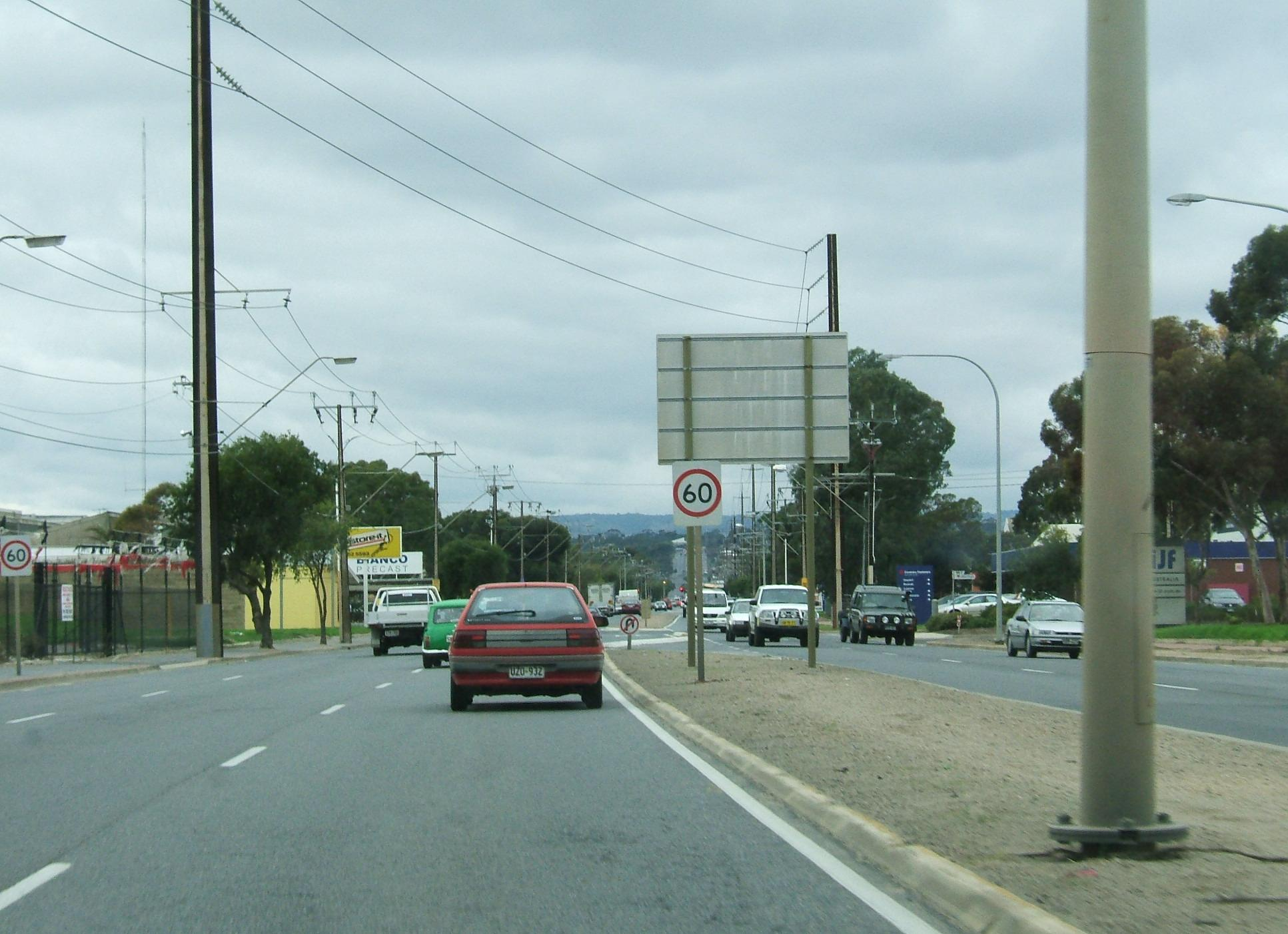 Grand Junction Rd passing through Kilburn, Adelaide.